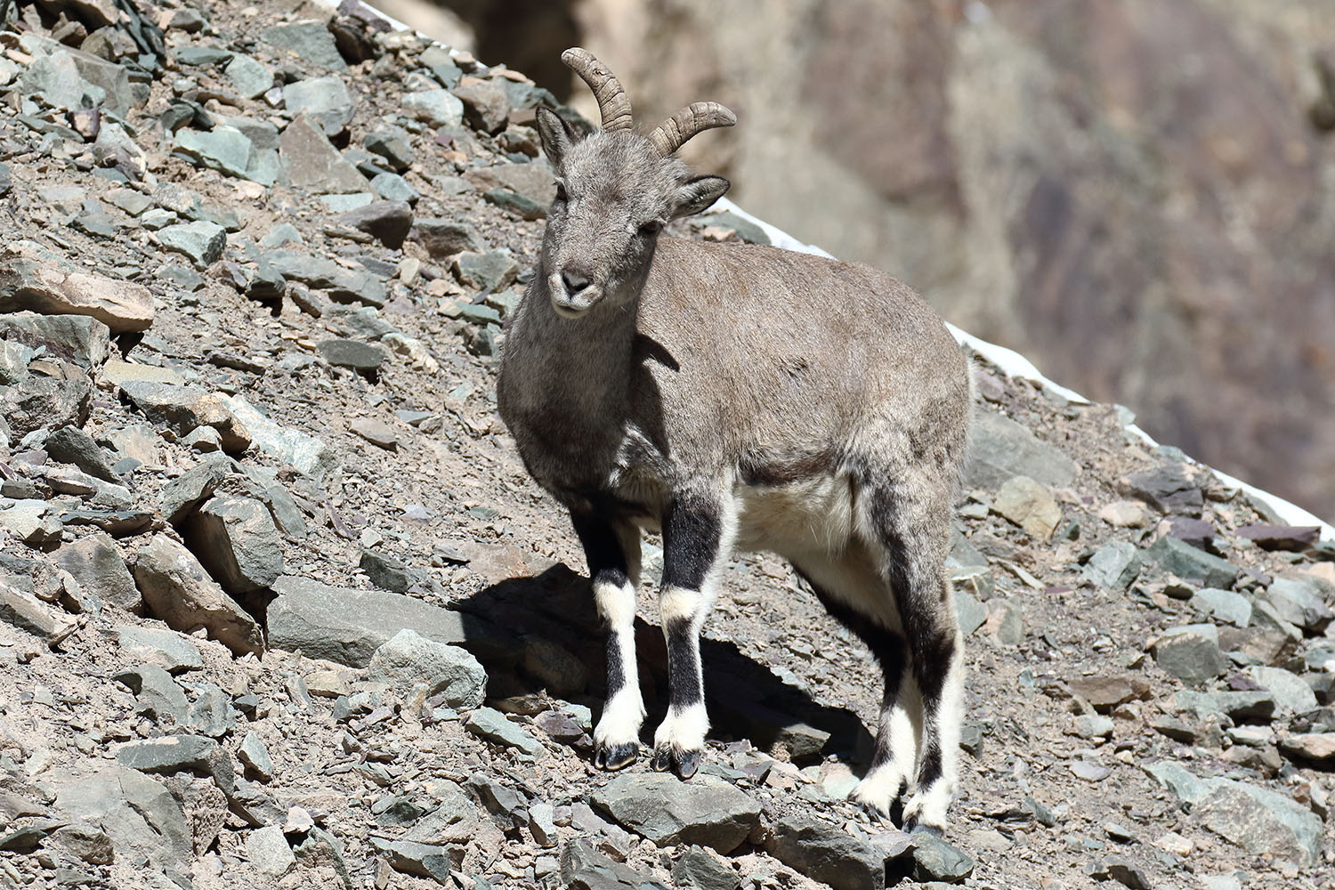 Bharal / Himalayan blue sheep / Pseudois nayaur Hemis National Park Ladakh (India)